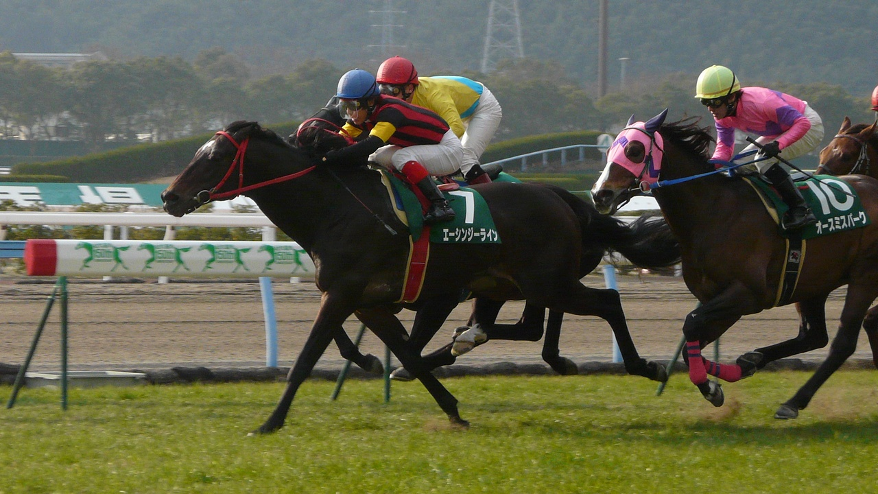 A-shin-g-line20120204